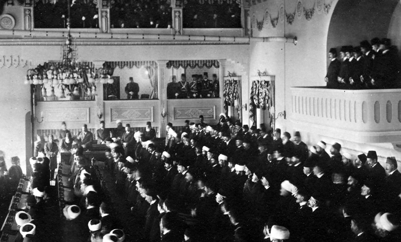 Ottoman parliament in December 1908 (Second Constitutional Era of the Ottoman Empire)